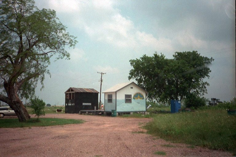 Branch Davidian compound near Waco, TX